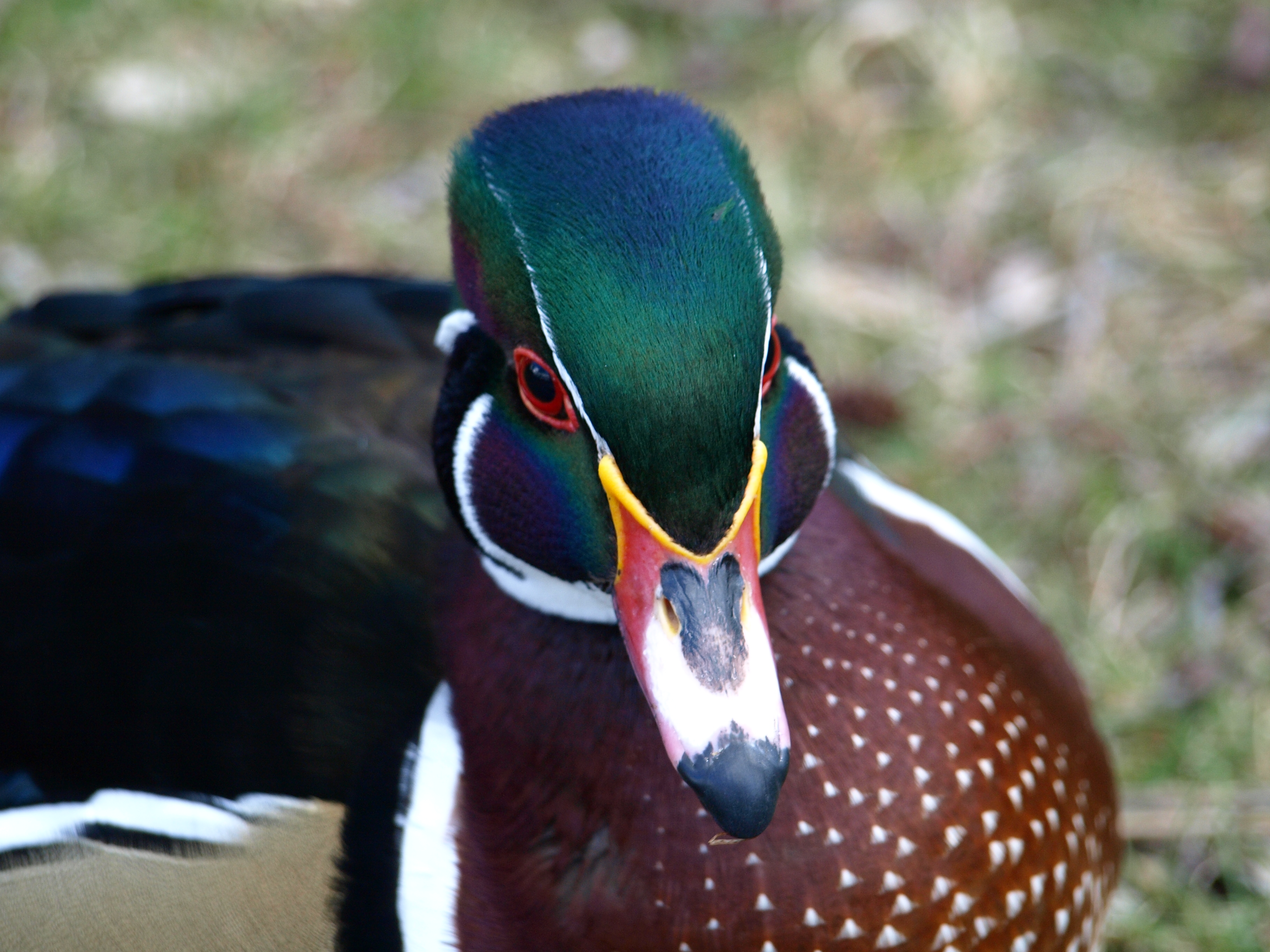 Wood Duck, also called Carolina Duck (Aix sponsa) in Cloppenburg, Germany.